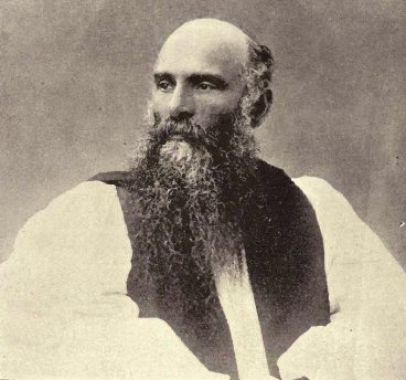 William Ridley Title: The bishops of the Church of England in Canada and Newfoundland; being an illustrated historical sketch of the Church of England in Canada, as traced through her episcopate Creator: Mockridge, Charles H. (Charles Henry), 1844-1913 Date: 1896 Publisher: Toronto : F.N.W. Brown Possible Copyright Status: NOT_IN_COPYRIGHT